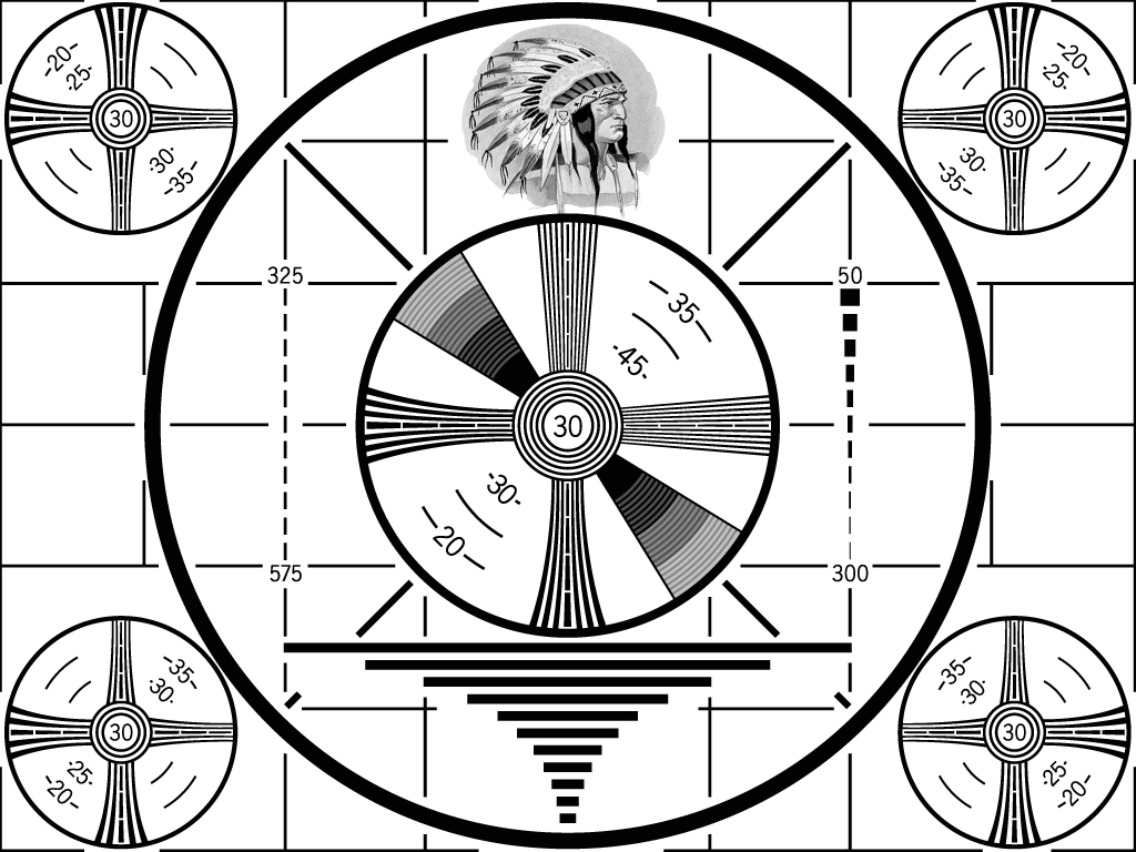 RCA black/white Indian Head test card, motif of the 2F21 monoscope tube, used from 1940 until the advent of color television.